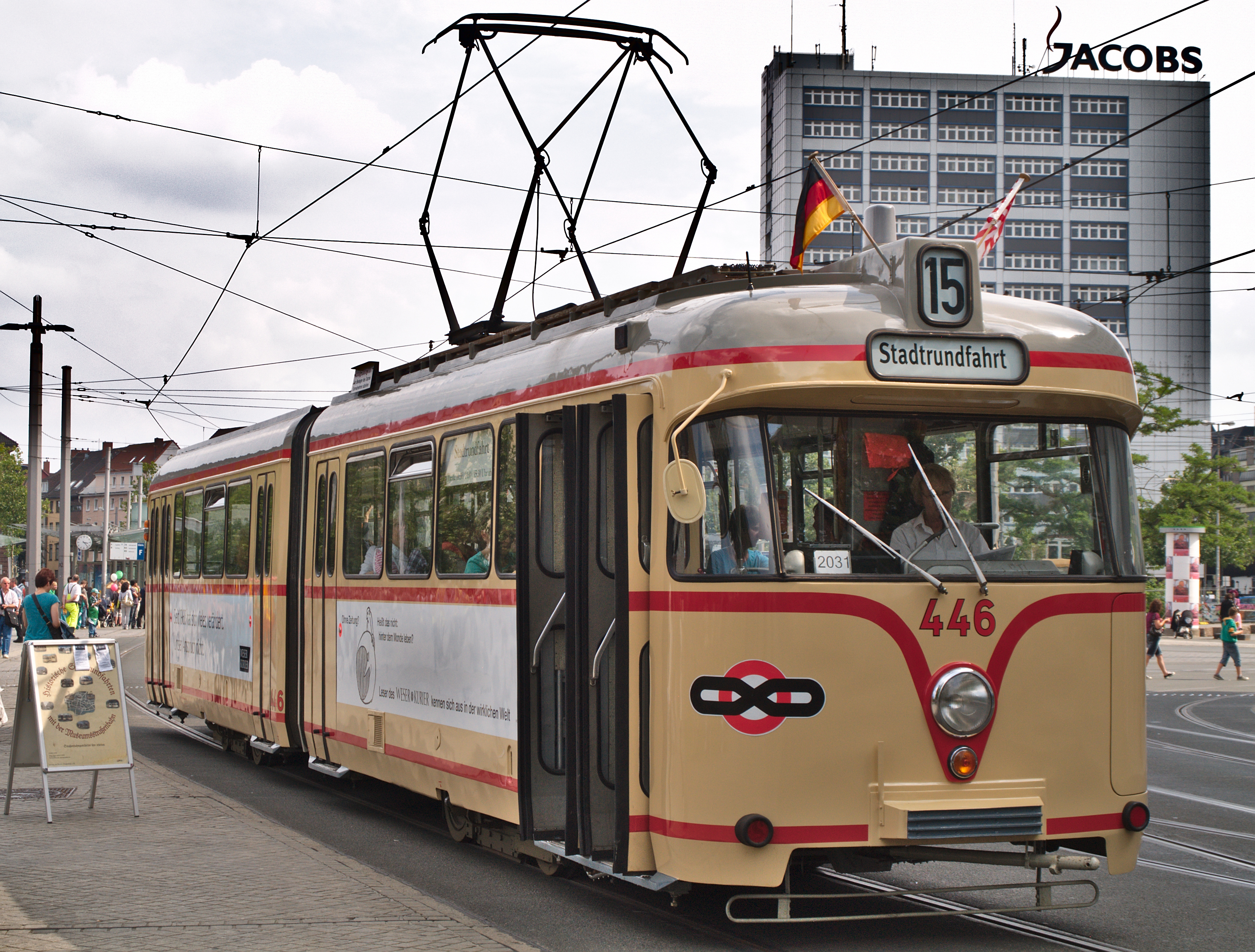 Tramcar #446 of the Bremen Transport Corporation (BSAG), a vintage class GT4c motor car, built in 1967 by Hansa Waggonbau, in service on a sightseeing trip (special route 15), is open for boarding at the tram stop at Bremen Central Station.